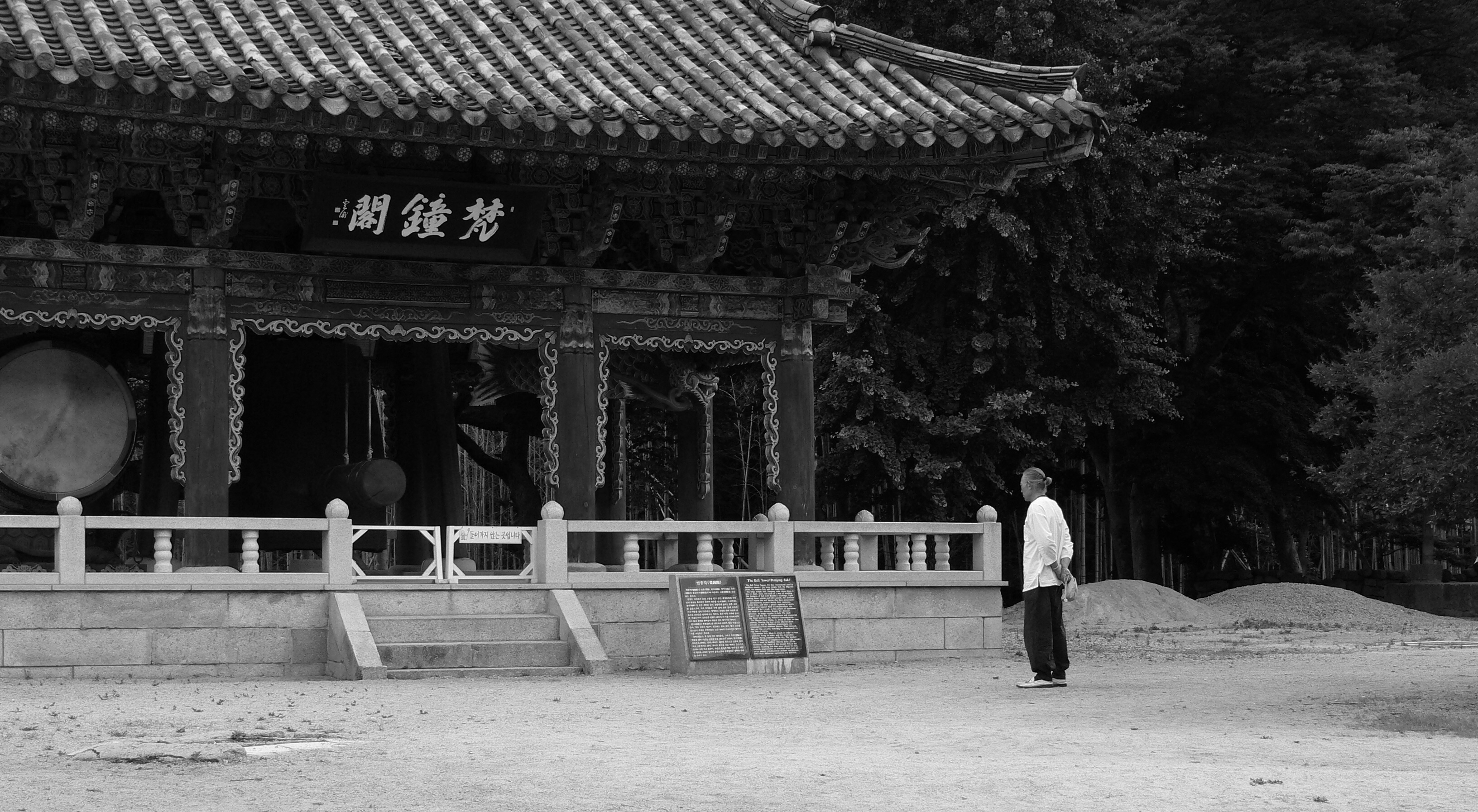 I am the author of this work. The original is at